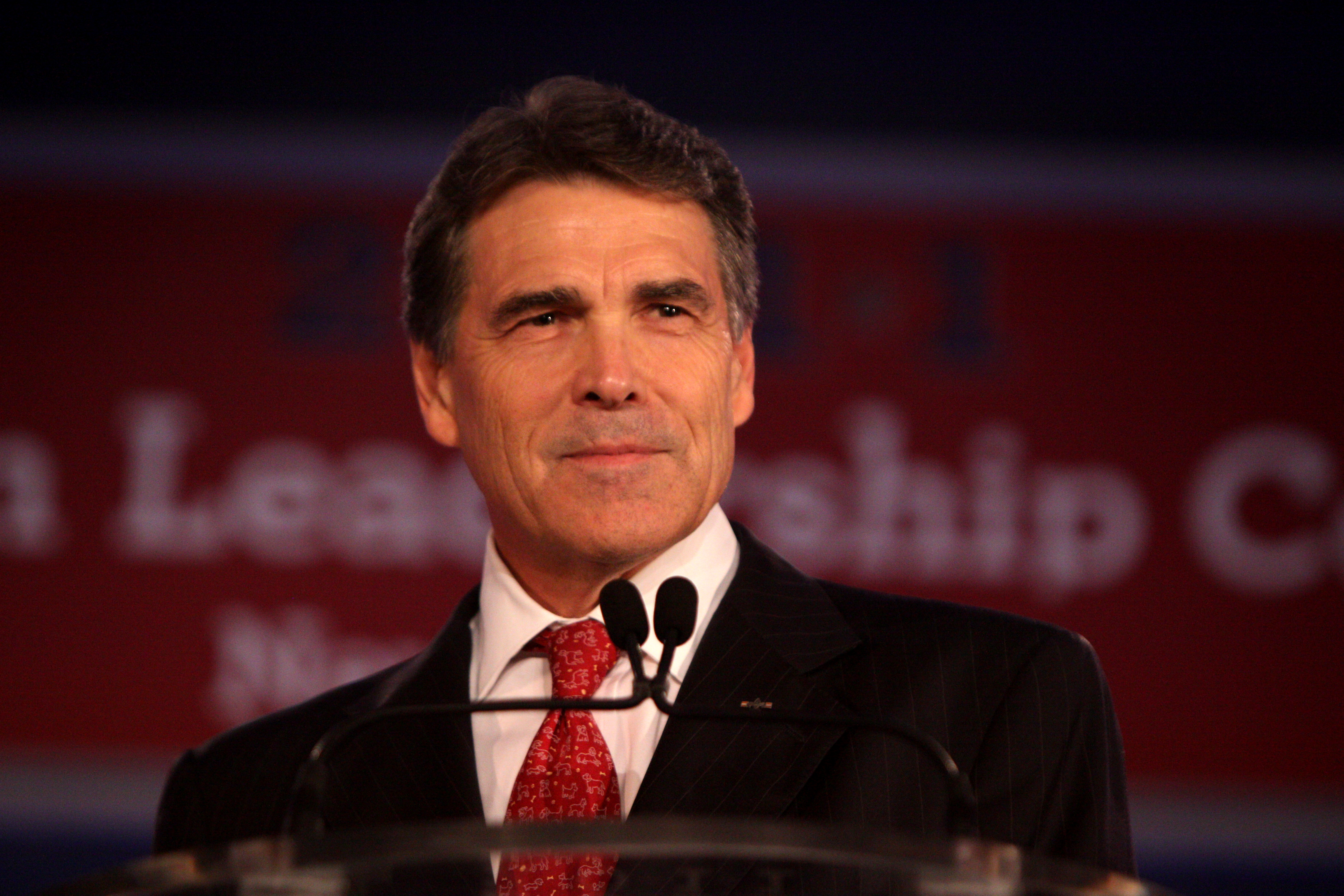 Governor Rick Perry of Texas speaking at the Republican Leadership Conference in New Orleans, Louisiana.